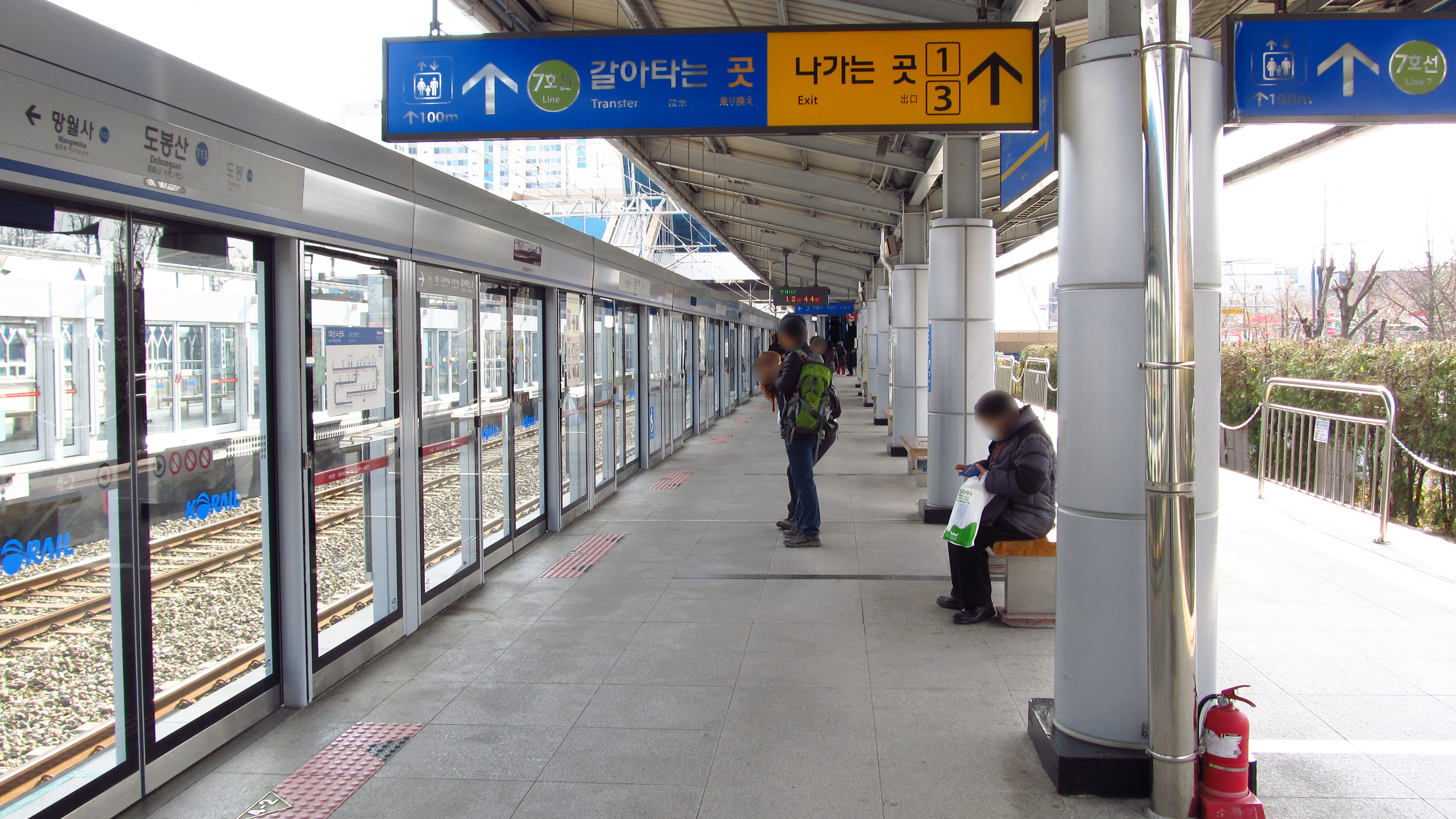 The Uijeongbu-bound platform at Dobongsan Station on Seoul Subway Line 1 in Dobong-gu, Seoul, Republic of Korea(South Korea)